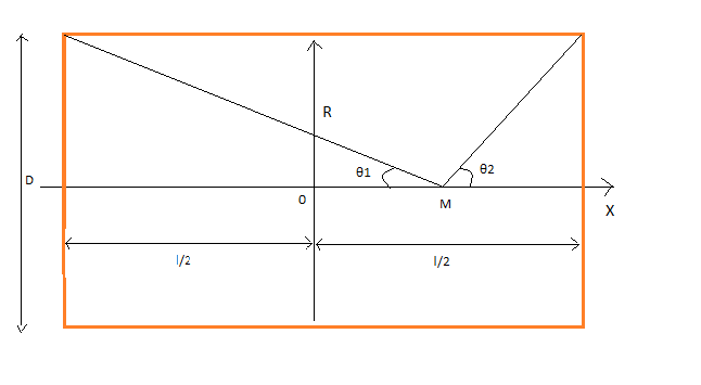 Schéma utilisé pour le calcul du champ magnétique à la distance x du centre dans un solénoïde